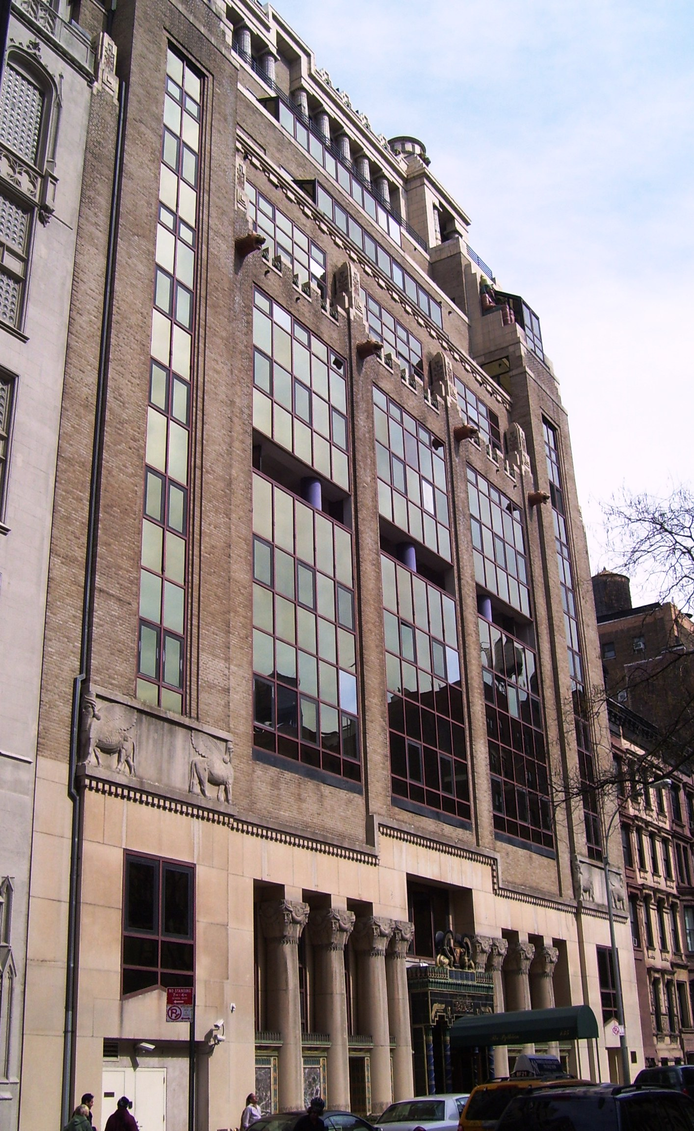 The former Pythian Temple at 135 West 70th Street between Columbus Avenue and Broadway in the Lincoln Square neighborhood of Manhattan, New York City, was built in 1927 as a clubhouse for the Knights of Pythias. It was designed by Thomas W. Lamb in Egyptian Revival Art Deco style. In 1986, David Gura renovated it to become a condominium apartment building, The Pythian. (Source: AIA Guide to NYC (4th ed.))